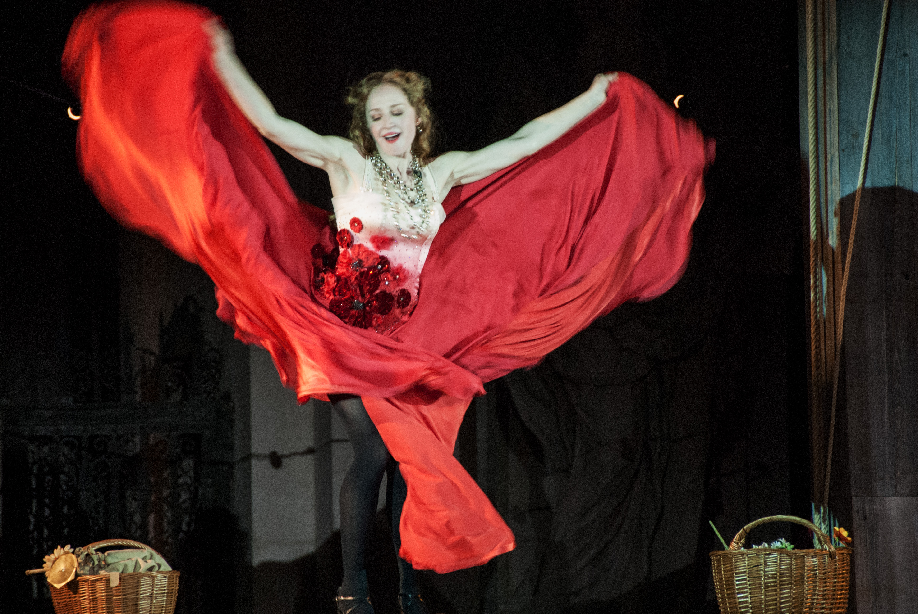 Buhlschaft in Jedermann (Brigitte Hobmeier) at the Salzburg Festival 2014